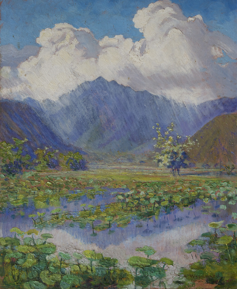 A Shower in the Mountains, Manoa Valley by Anna Woodward, oil on board, 16 x 12 7/8 inches